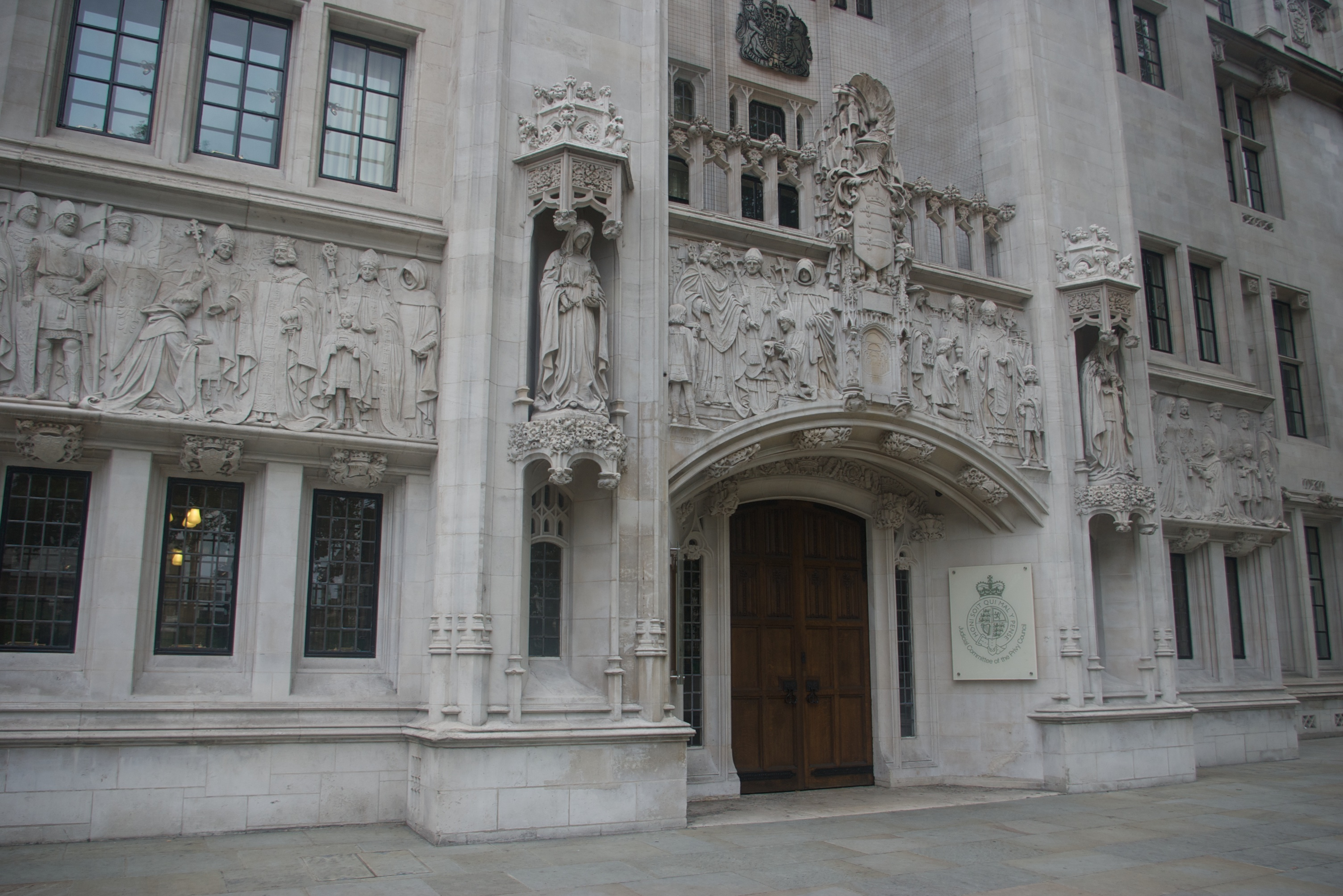 The Middlesex Guildhall, home of the Supreme Court of the United Kingdom.